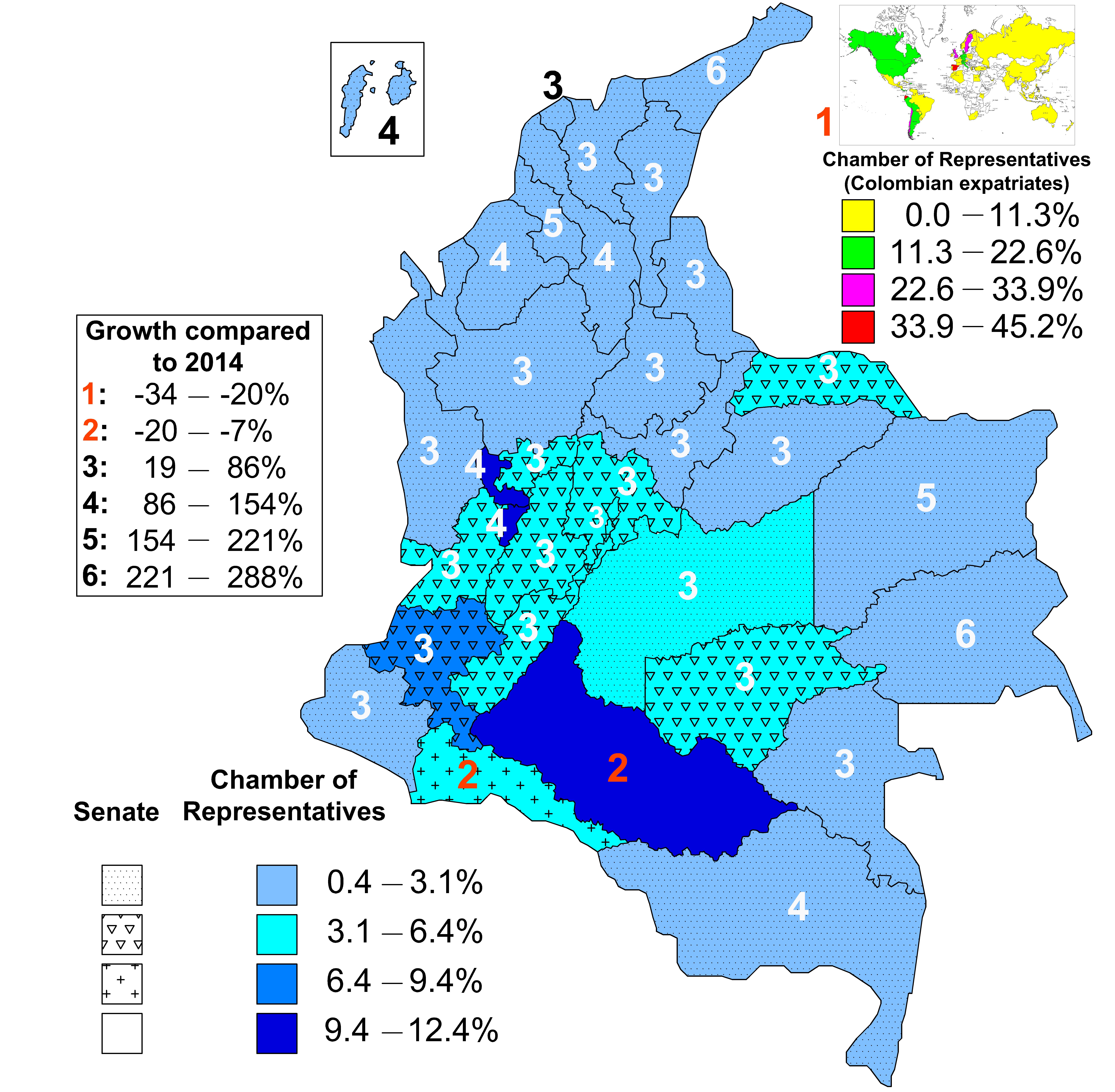 This map summarizes the preliminary results obtained by the MIRA Party in the 2018 parliamentary elections in Colombia. This is the map version for Wikipedia in English. This file replaces 2018 Parliamentary elections results of the MIRA Party (English version).png.